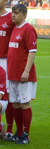 Feodor Cherenkov